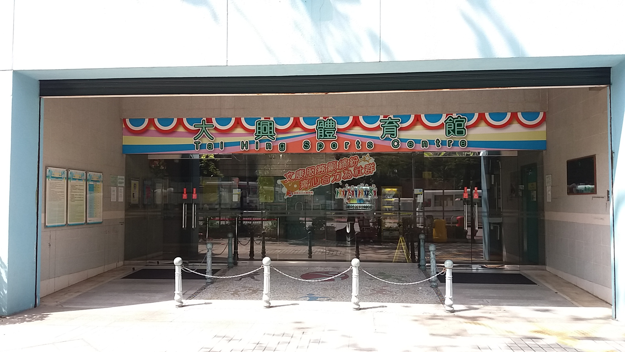 Tai Hing Sports Centre Entrance